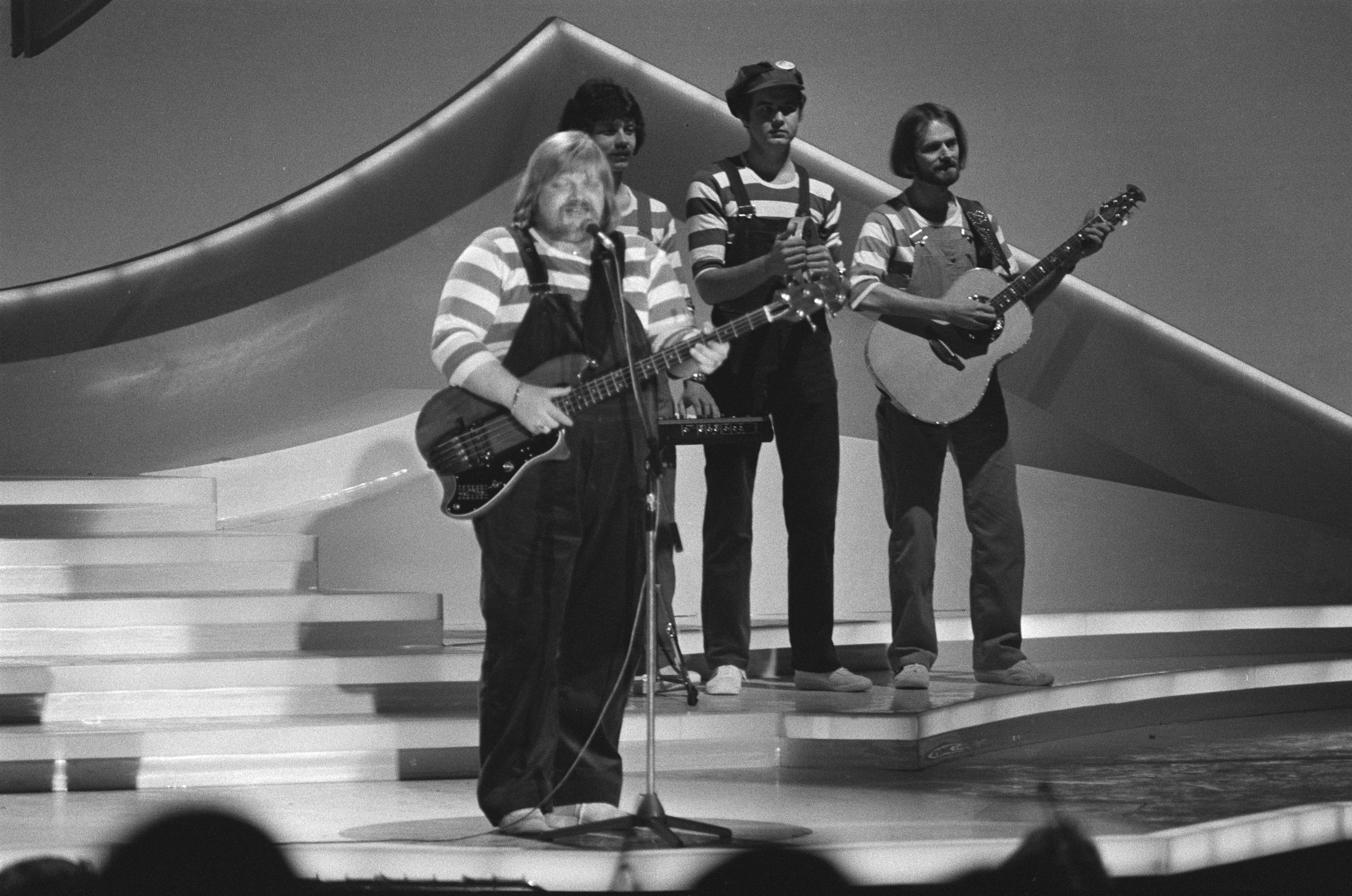 Bamses Venner during rehearsals for the Eurovision Song Contest 1980